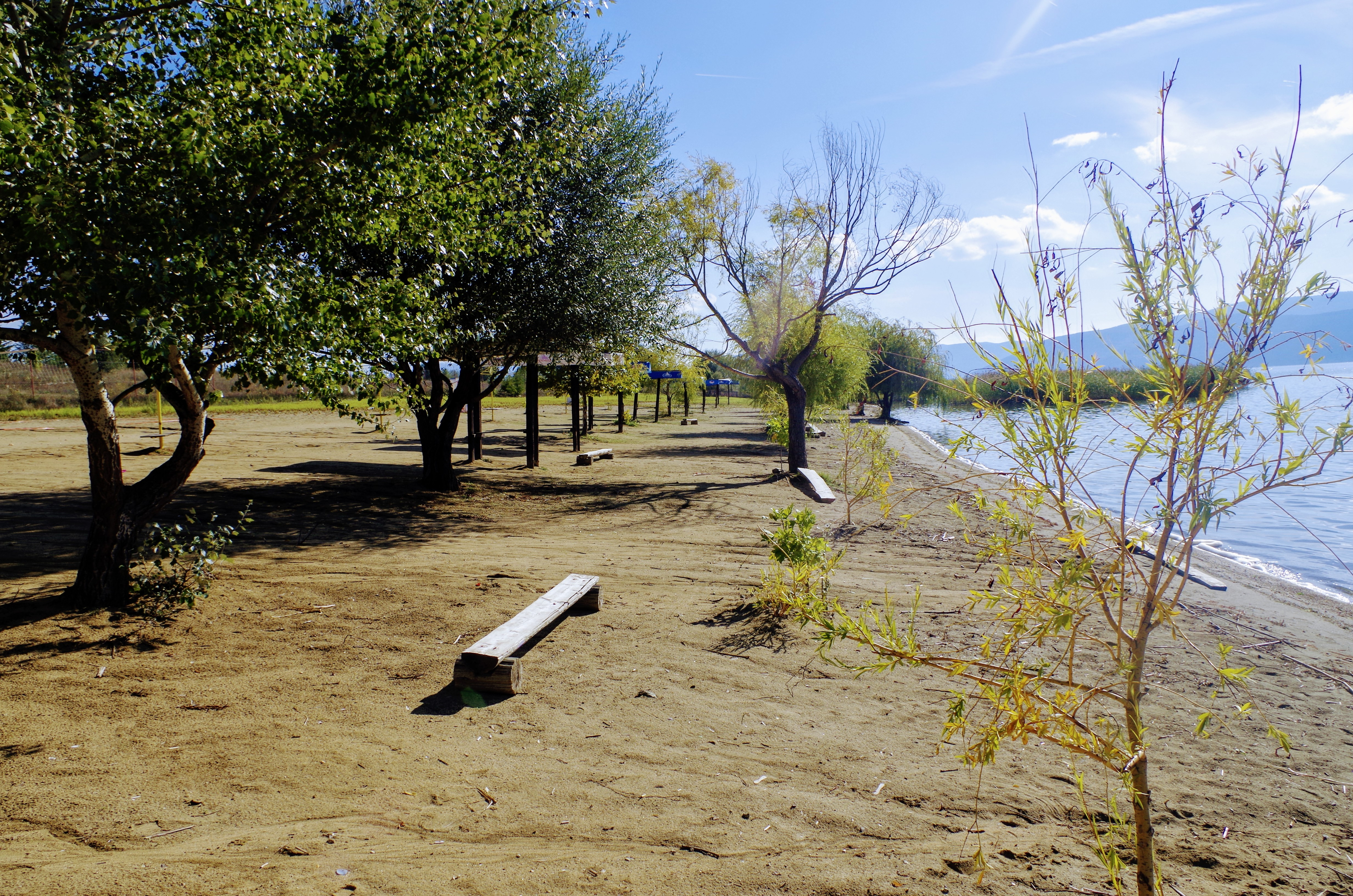 View of the beach in the village Dolno Dupeni